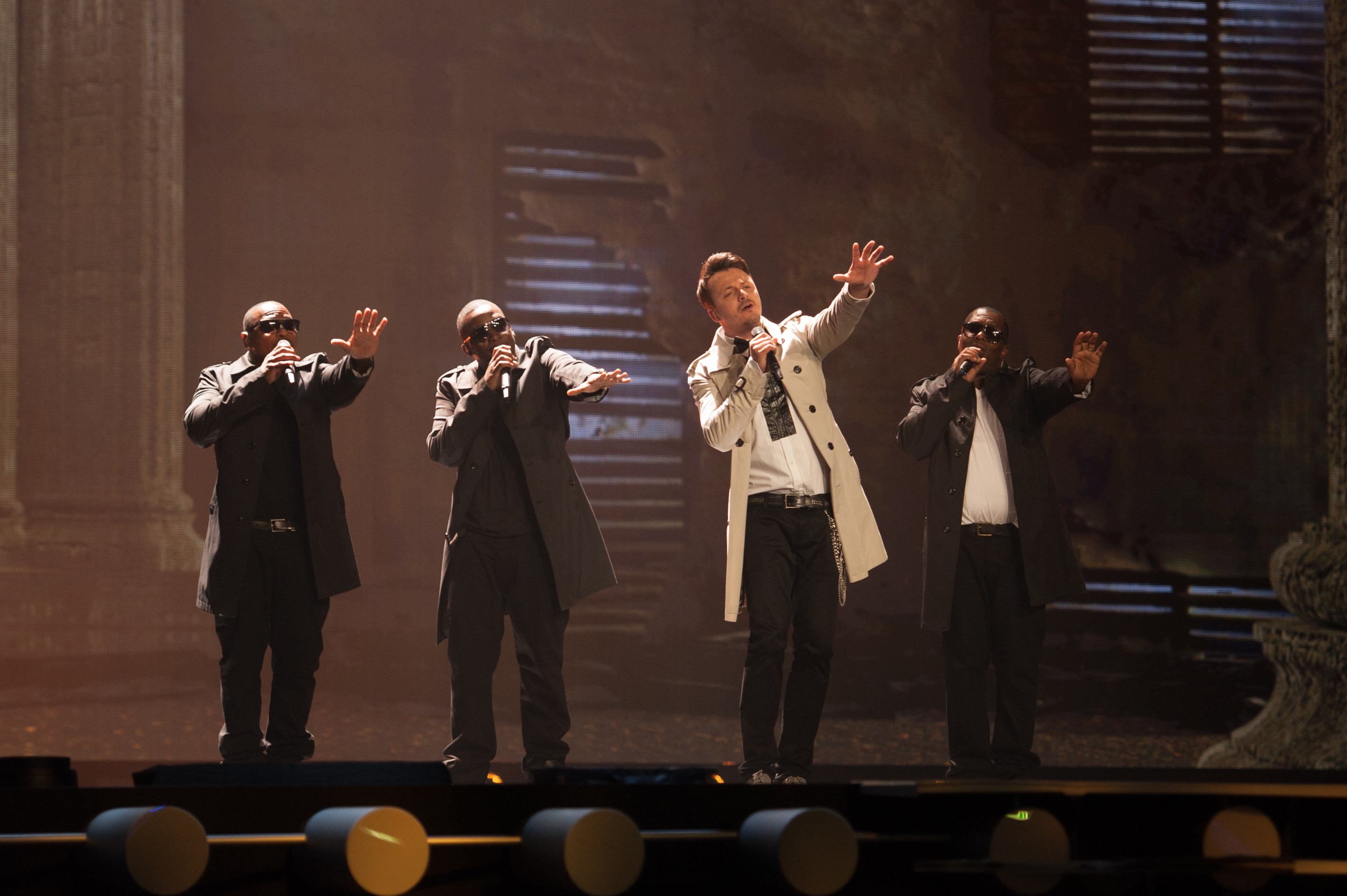 Eurovision Song Contest Vienna 2015: Daniel Kajmakoski